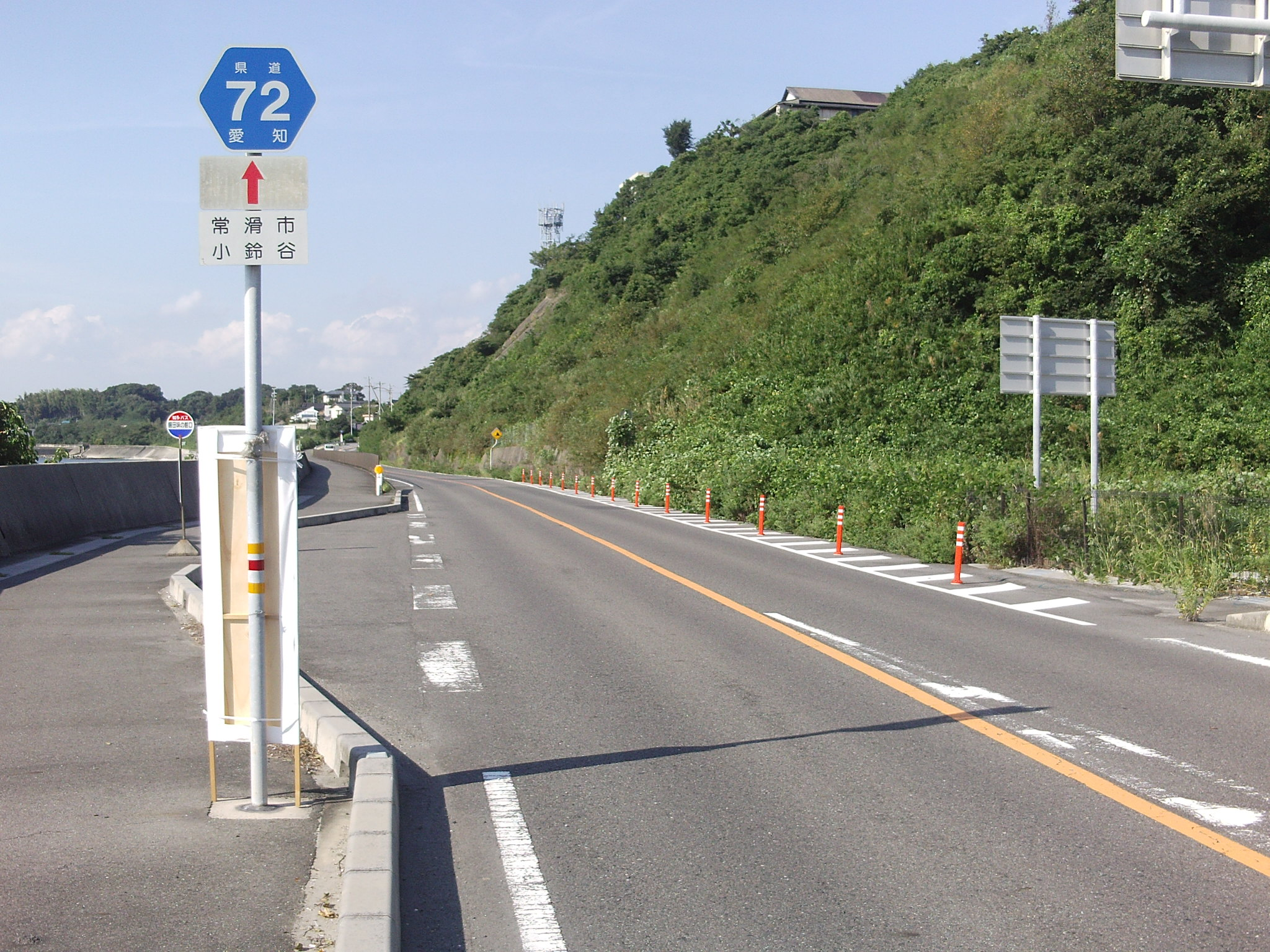 Aichi prefectural road No.72 in Kosugaya, Tokoname, Aichi.